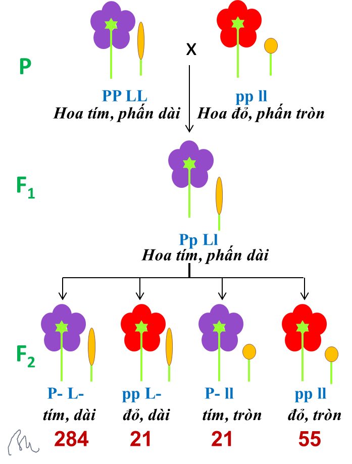 Linked genes: Bateson, Saunders & Punnett experiment.